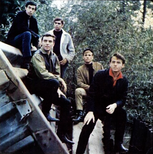 Trade ad for Jay and the Americans' single "Sunday And Me".To better adapt it to his respective Wikipedia article, the ad was cropped and cleaned in a graphics editing program. The original can be viewed at the source below.